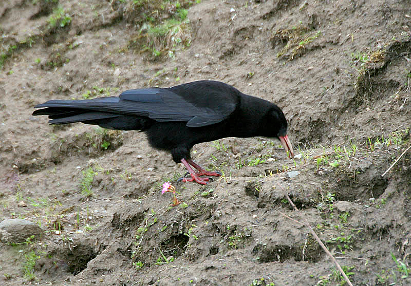 Red-billed Chough Pyrrhocorax pyrrhocorax in Kullu District of Himachal Pradesh, India. Finally, I could have a decent shot of this bird in Himachal Himalayas, after failing in the pursuit for past many years. This bird is always fascinating to a layman & the trekkers. They are surprised to know a crow with a red bill (bill shape unlike that of a crow) & red feet & with not-a-crow like call (far carrying & penetrating nasal 'chaow.... chaow') existing in Himalayas. From a distance, it will appear like a Large-billed Crow only as the curved red bill & feet etc. are not that visible or one doesn't pay much attention. Picture is that of an Immature bird, with bill still not getting its red colour. Taken at Tilla Lotani Camp (12,500 ft.) during Sar Pass Trek in Himachal.